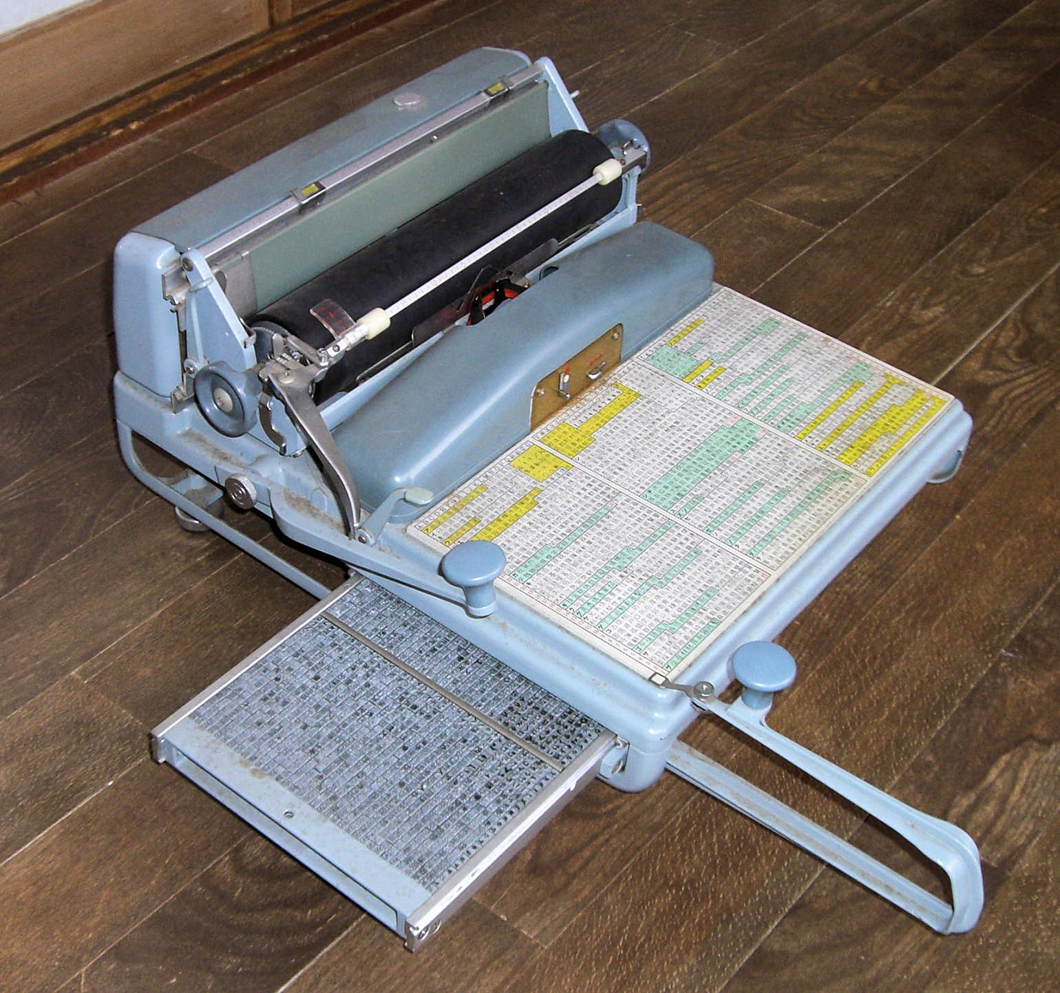 Japanese typewriter, Sh-280 of Nippon Typewriter